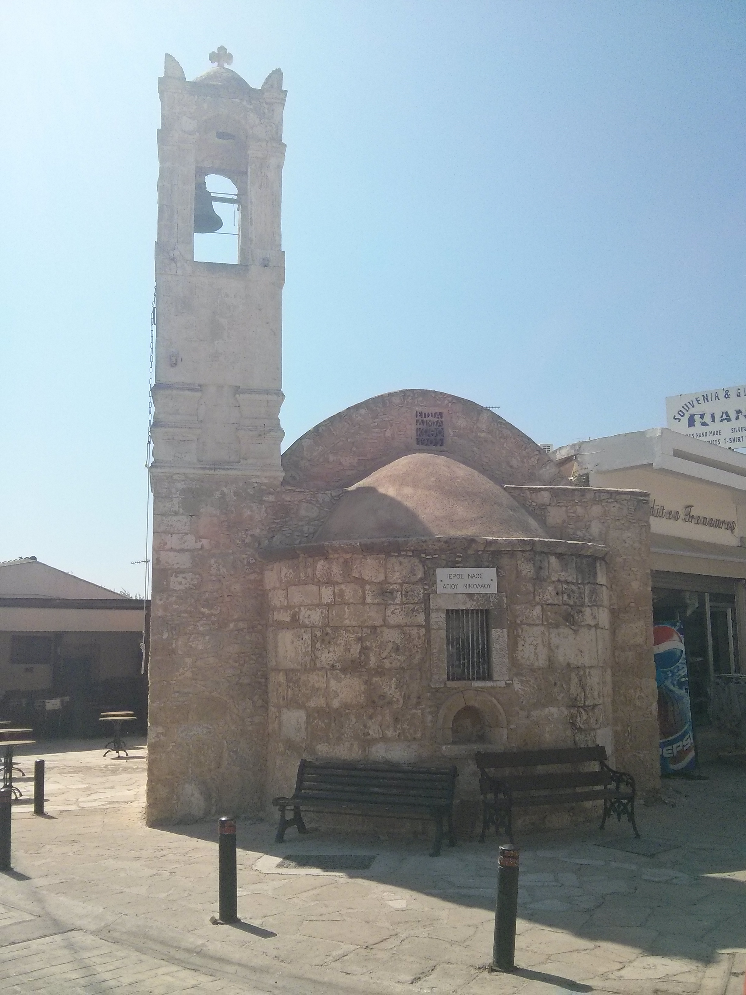 Polis Church